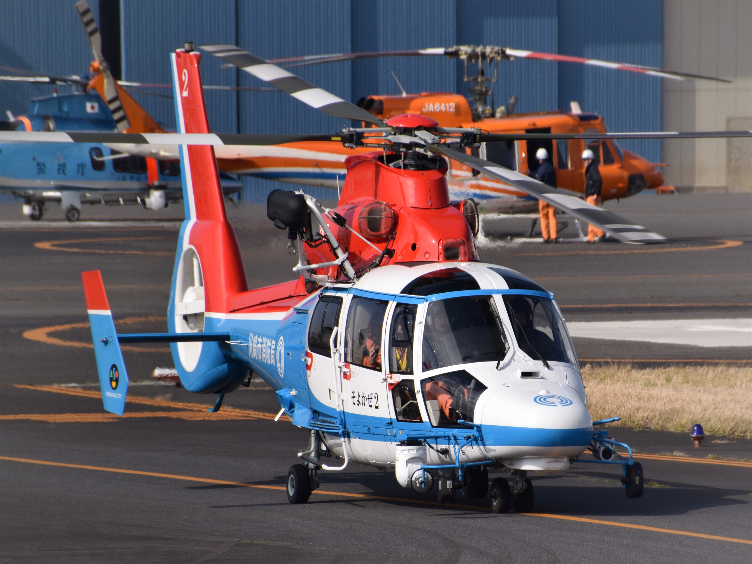 Japan fire helicopter